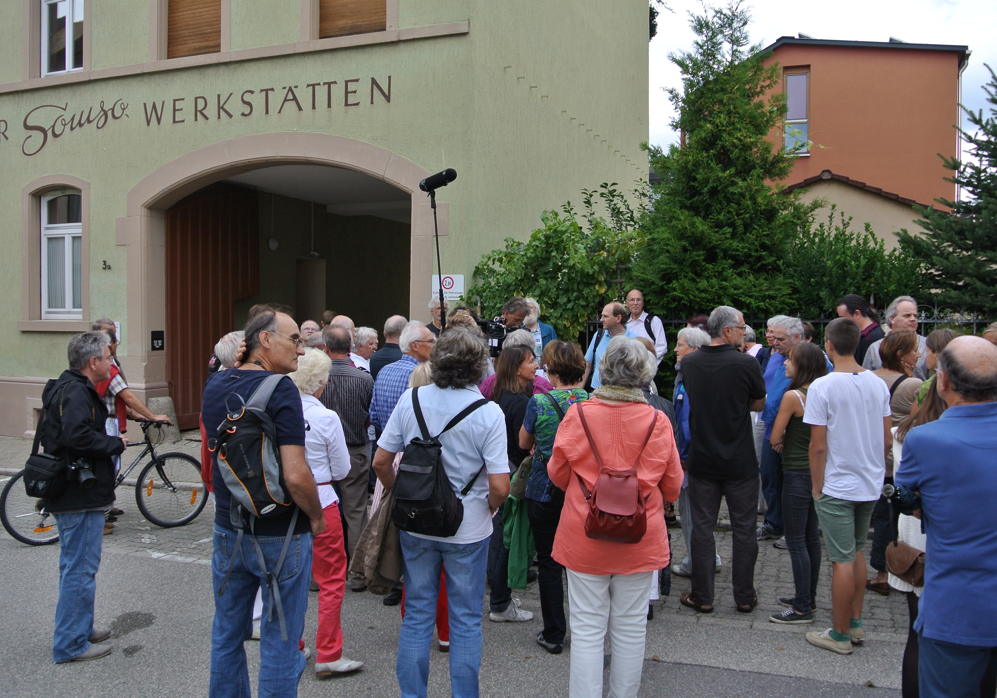 The former residence of SS-Standartenführer (= SS Colonel) Karl Jäger (1888-1959) on Bismarckstrasse in Waldkirch is visited as part of a historical walking tour on the topic "Waldkirch under National Socialism" organized by the "Ideas Workshop on Waldkirch in the Nazi Era" and the "Working Group on Resistance and Labor History". The framework was the annual Monuments Open Doors Day (the German iteration of European Heritage Days), organized in 2013 with the theme "Beyond the Good and Beautiful: Uncomfortable Monuments?". As the leader of the Einsatzkommando 3 in Lithuania, Jäger headed the murder of 137,000 Jews, Russian POWs, Poles, Communists, mentally disabled individuals, and Romani people.